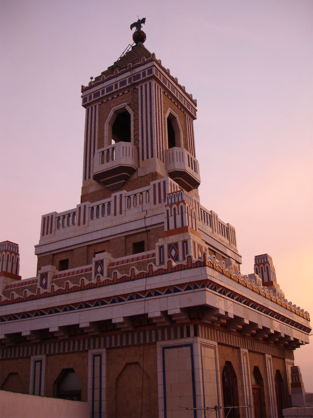 Created by me, takethemud, in Havana, Cuba, May 2006.